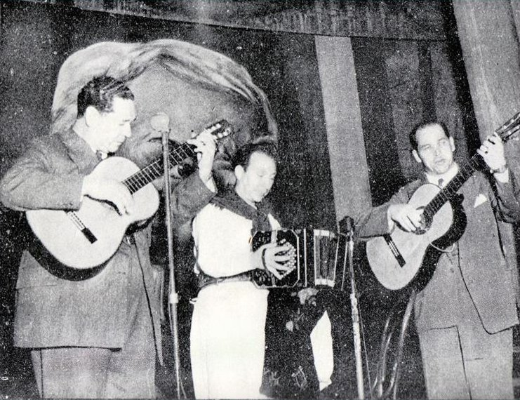 Trío Cocomrola: Tránsito Cocomarola, Emilio Chamorro, Samuel Claus. 1950. Argentina. Chamamé